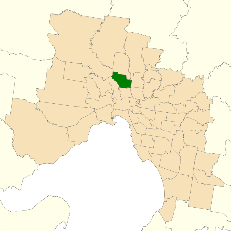 Location of the Victorian electoral district of Pascoe Vale (dark green) in the Greater Melbourne area.